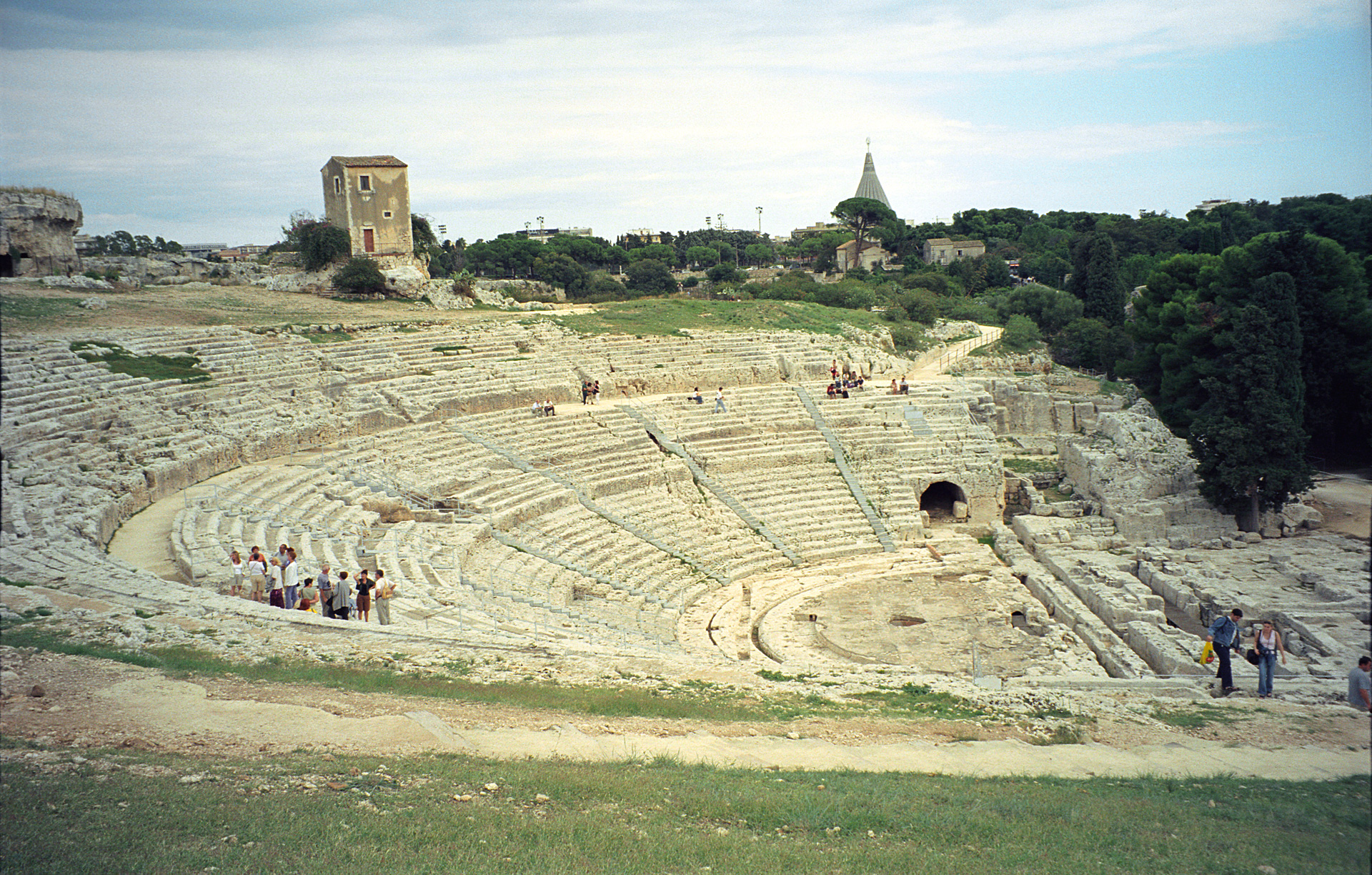 The Greek theatre in Syracuse, Sicily, Italy.